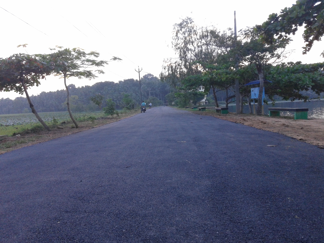 Vavvamoola Lake road after tarring